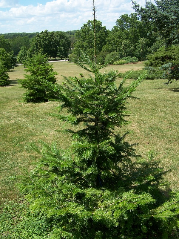 Manchurian Fir, Abies nephrolepis, Morton Arboretum acc. 296-93-1